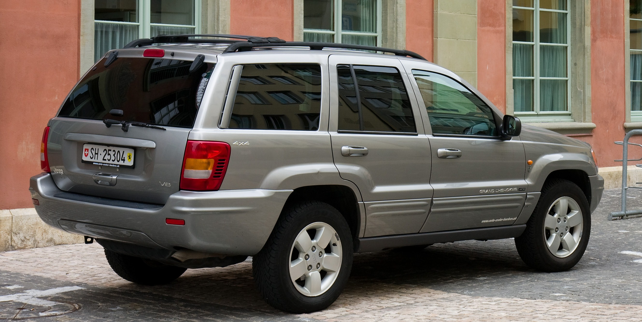 Jeep Grand Cherokee